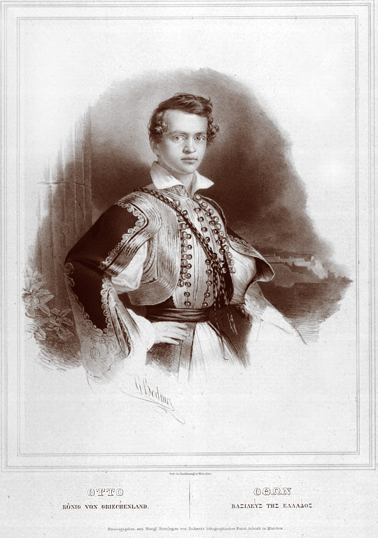 Otto of Greece (1 June 1815 – 26 July 1867) was the first modern King of Greece.